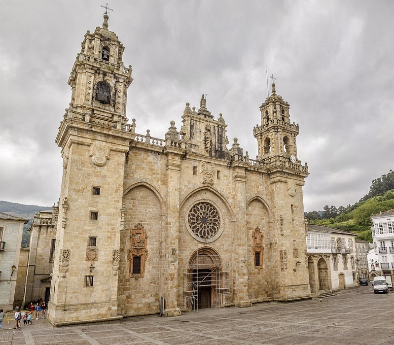 Catedral de Mondoñedo